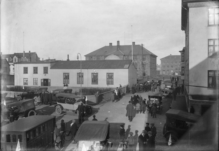 Samkomuhús. Góðtemplarahúsið við Templarasund, Gúttó. Alþingishúsið. 1923-1935. Reykjavík, Iceland, The meeting – house „Góðtemplarahúsið“ on Templarasund, Gúttó. 1923-1935. Ljósmyndari / Photographer: Magnús Ólafsson Format: Filma / Film negatives. 10x15 cm. Höfundarréttur / Rights Info: Enginn þekktur höfundarréttur /No known restrictions on publication. Geymsla / Repository: Ljósmyndasafn Reykjavíkur / Reykjavík Museum of Photography, Tryggvagata 15, 6. Hæð / 6th floor Númer myndar / Call Number: MAÓ 2149 Myndavefur Ljósmyndasafnsins / Reykjavík Museum of Photography´s photoweb: ljosmyndasafn.reykjavik.is/fotoweb/Grid.fwx